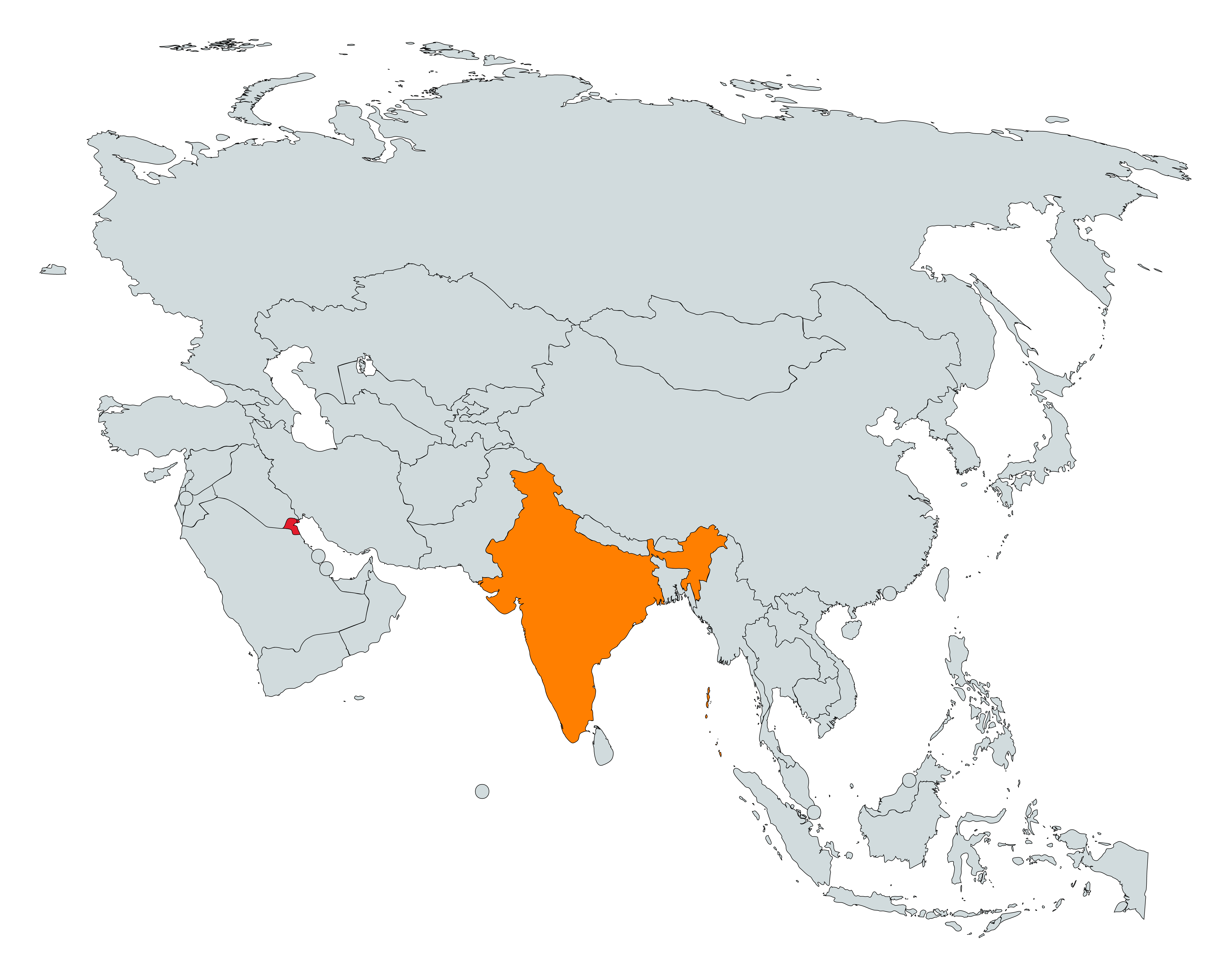 Map showing locations of India and Kuwait on Asian map